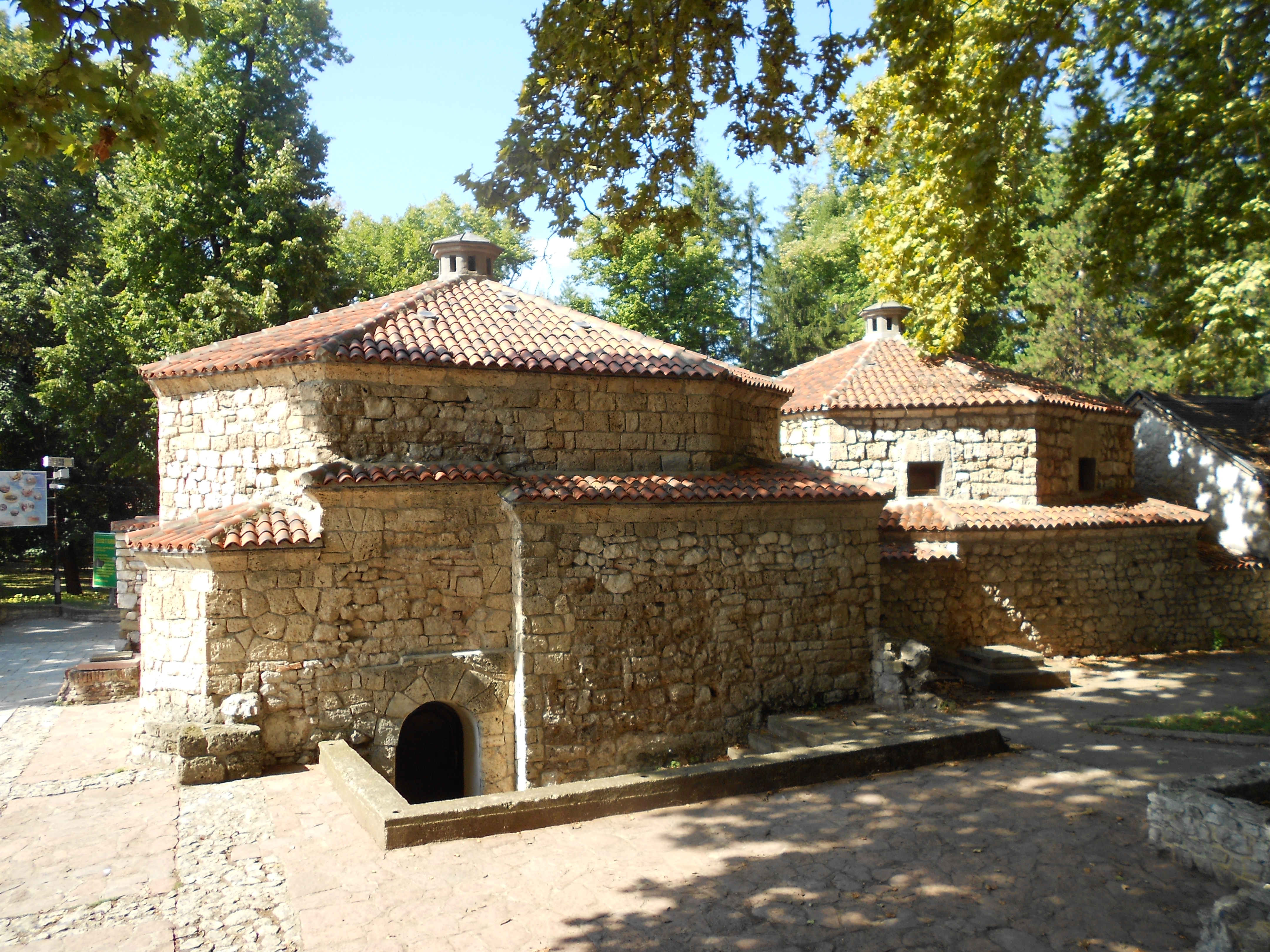 Turkish bath, Sokobanja